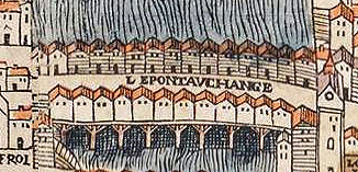 Pont au change on the Plan de Truschet and Hoyau (1550).